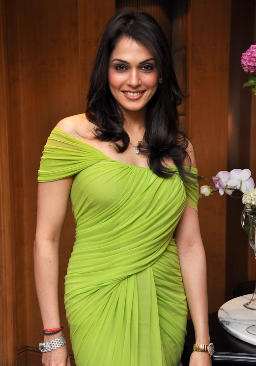 Isha Koppikar at her birthday celebrations